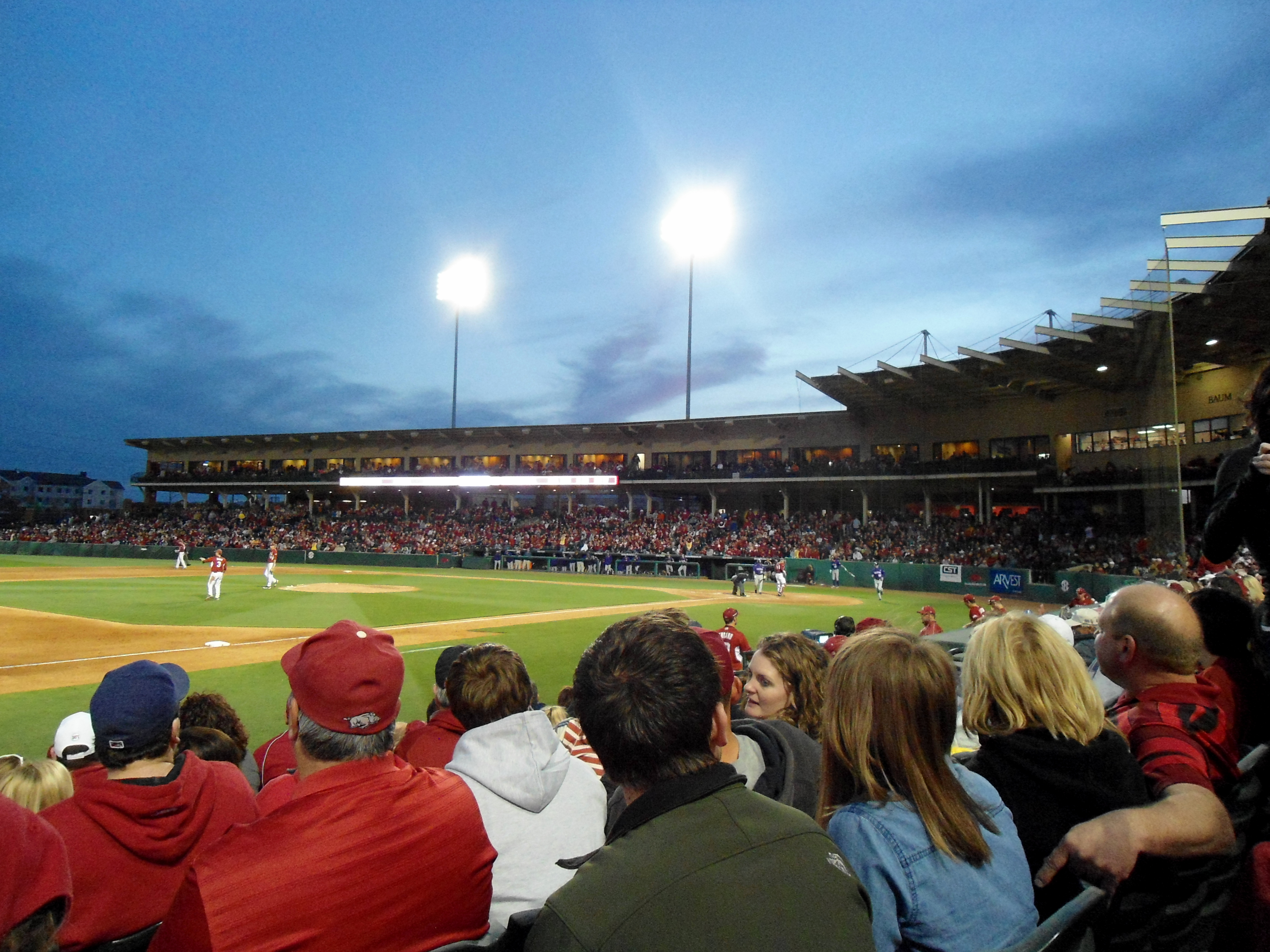 The infield at Baum Stadium, Fayetteville Arkansas. Arkansas vs LSU